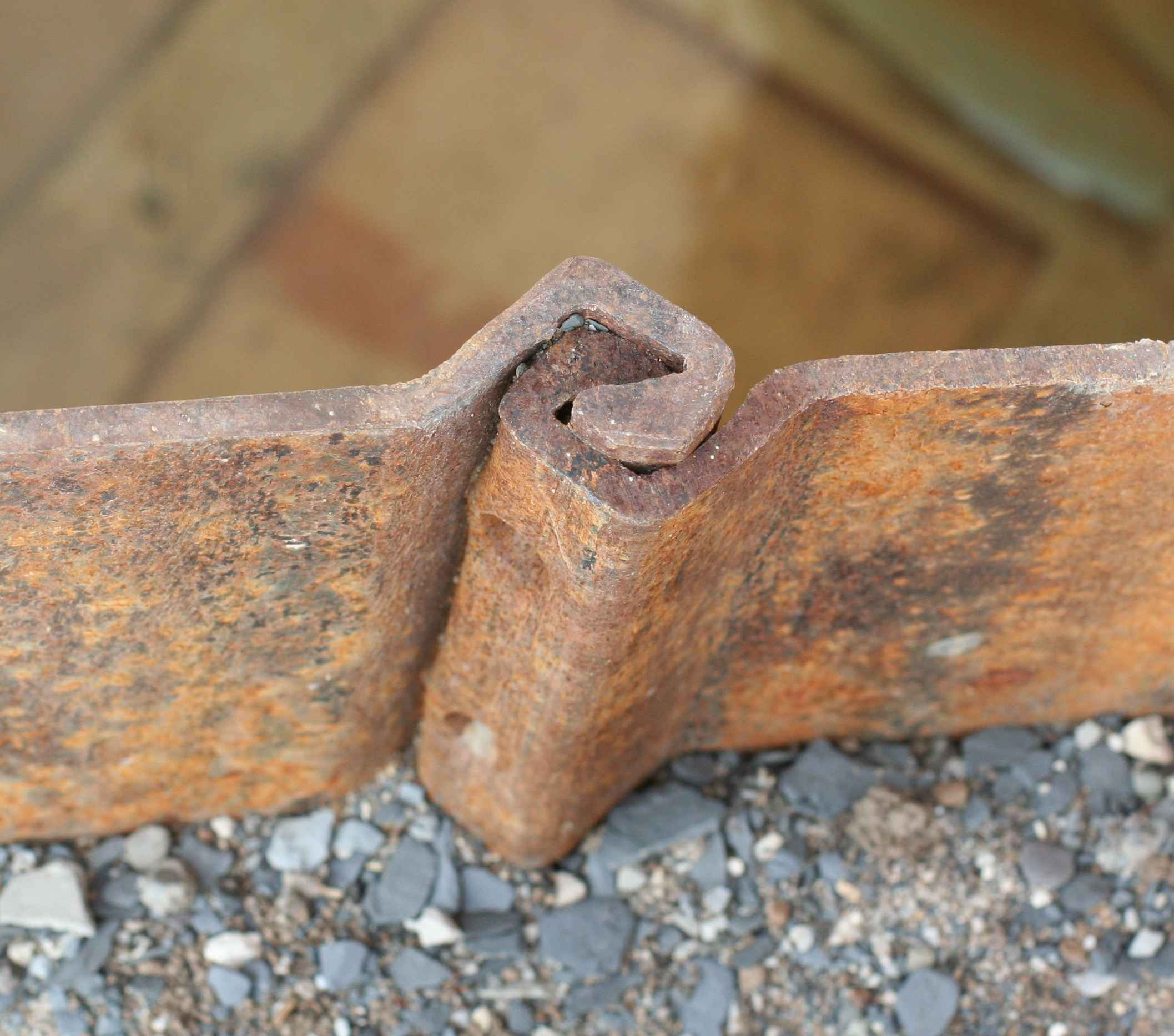 Sheet pile wall